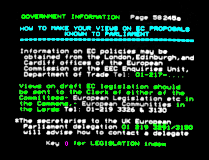 Description Page Prestel Date1981SourceOwn work by the original uploaderAuthorBernard MARTI Page Prestel